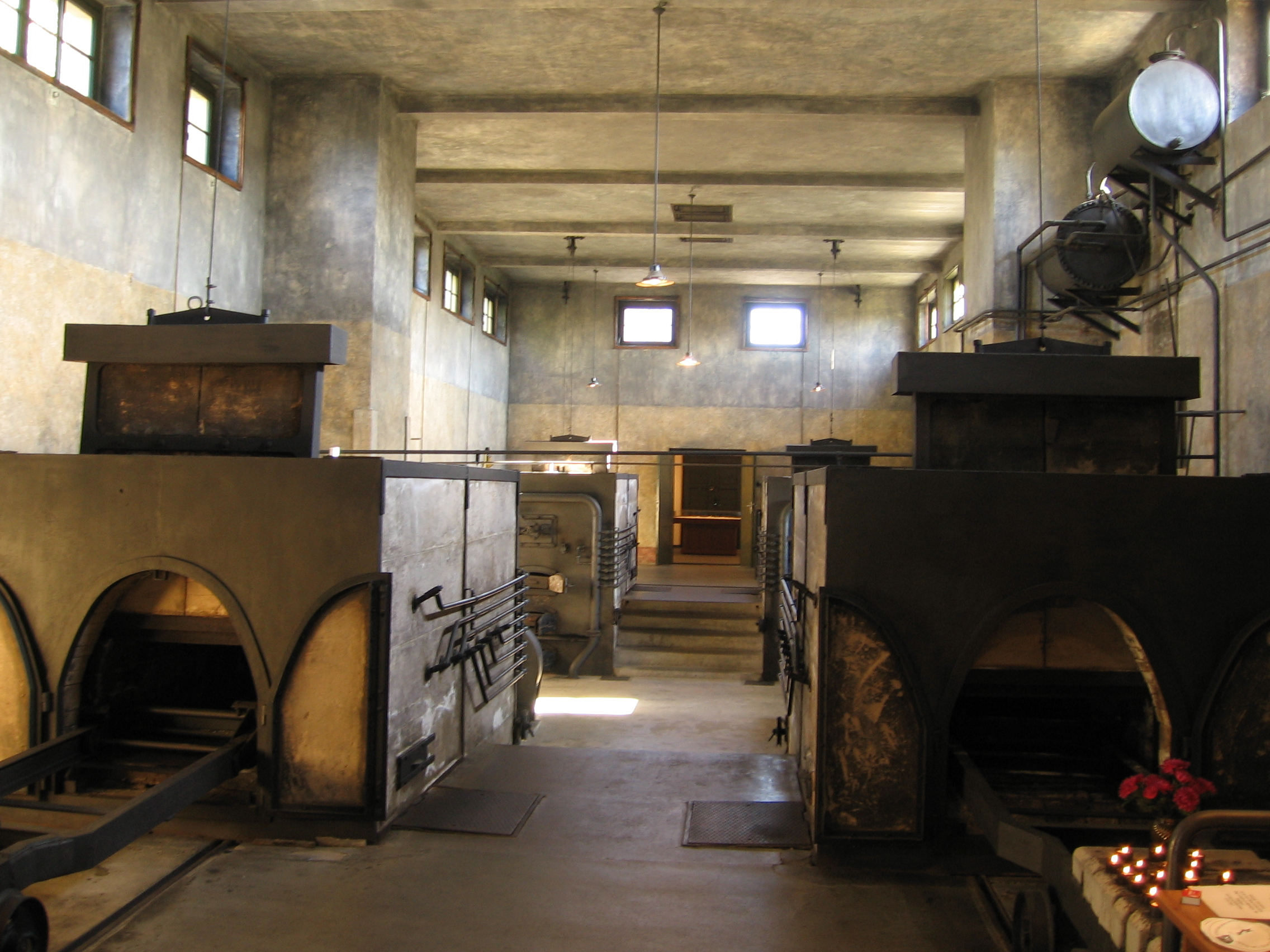 The Crematorium at Terezín concentration camp. Taken by uploader User:SamuelWantman